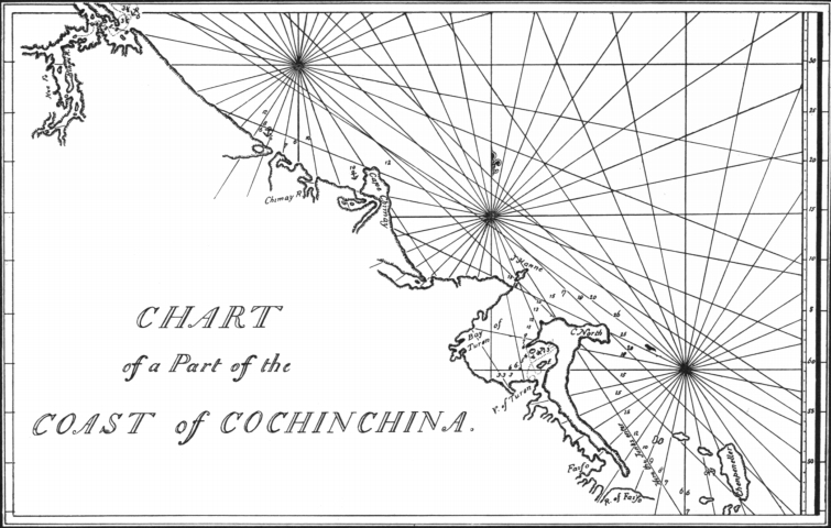 From the report of the East India Company's Chapman Mission in 1778.